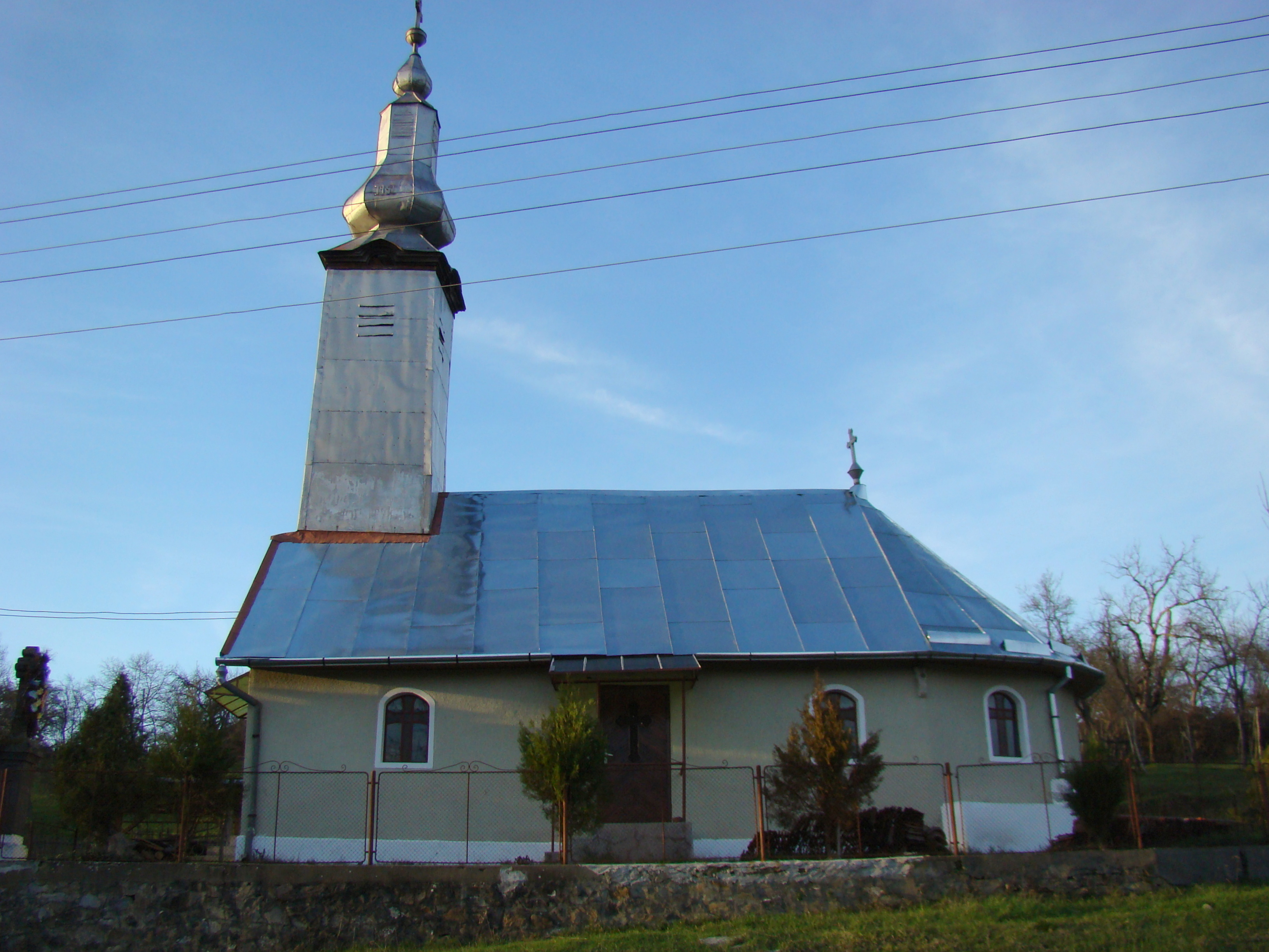 Wooden church in Valea Mare (Gurahonț), Arad county, Romania